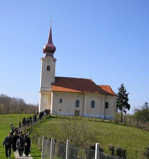 Church in Croatia